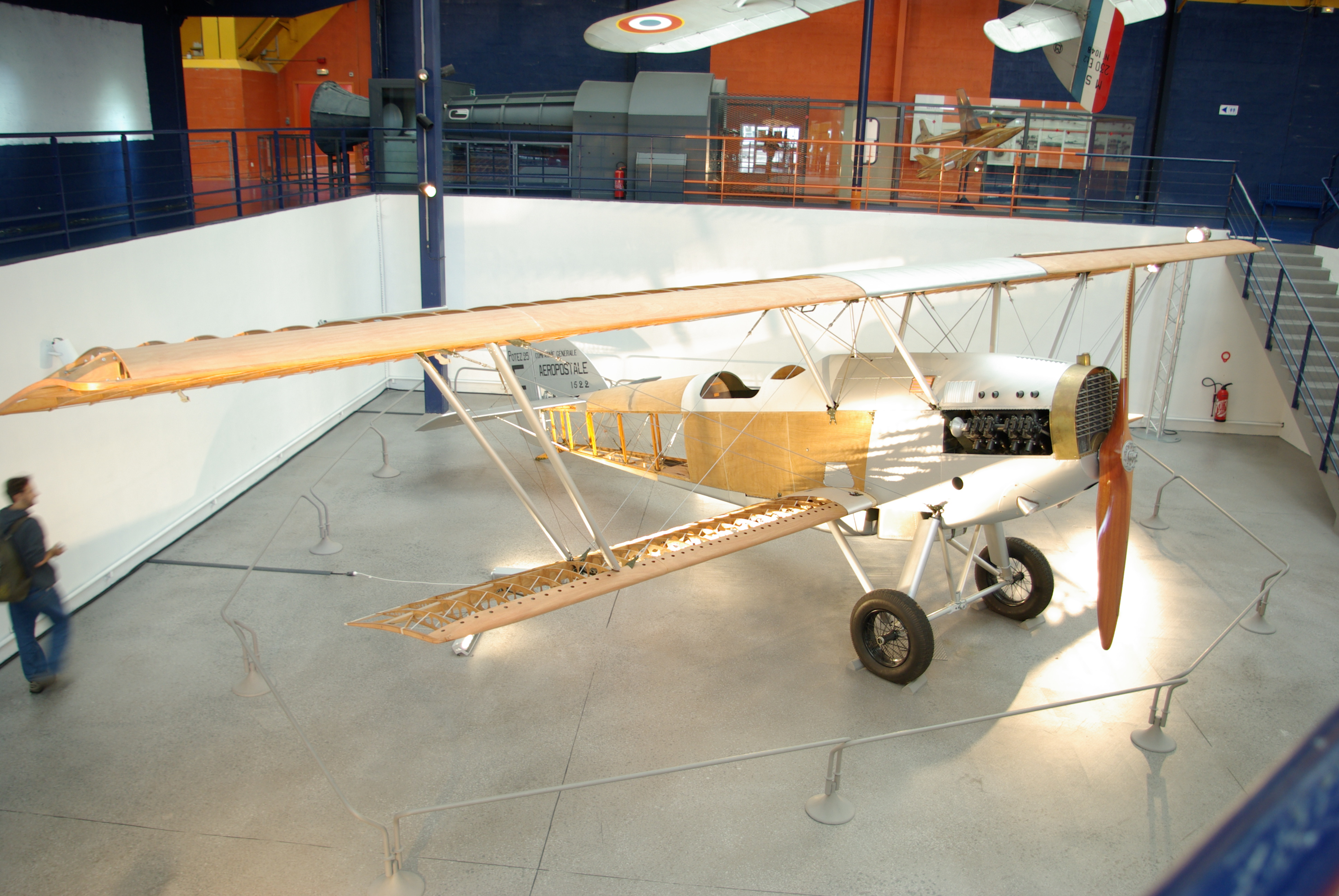 Cutaway of a Potez 25 TOE exhibited at the Air & Space Museum of Le Bourget, France.